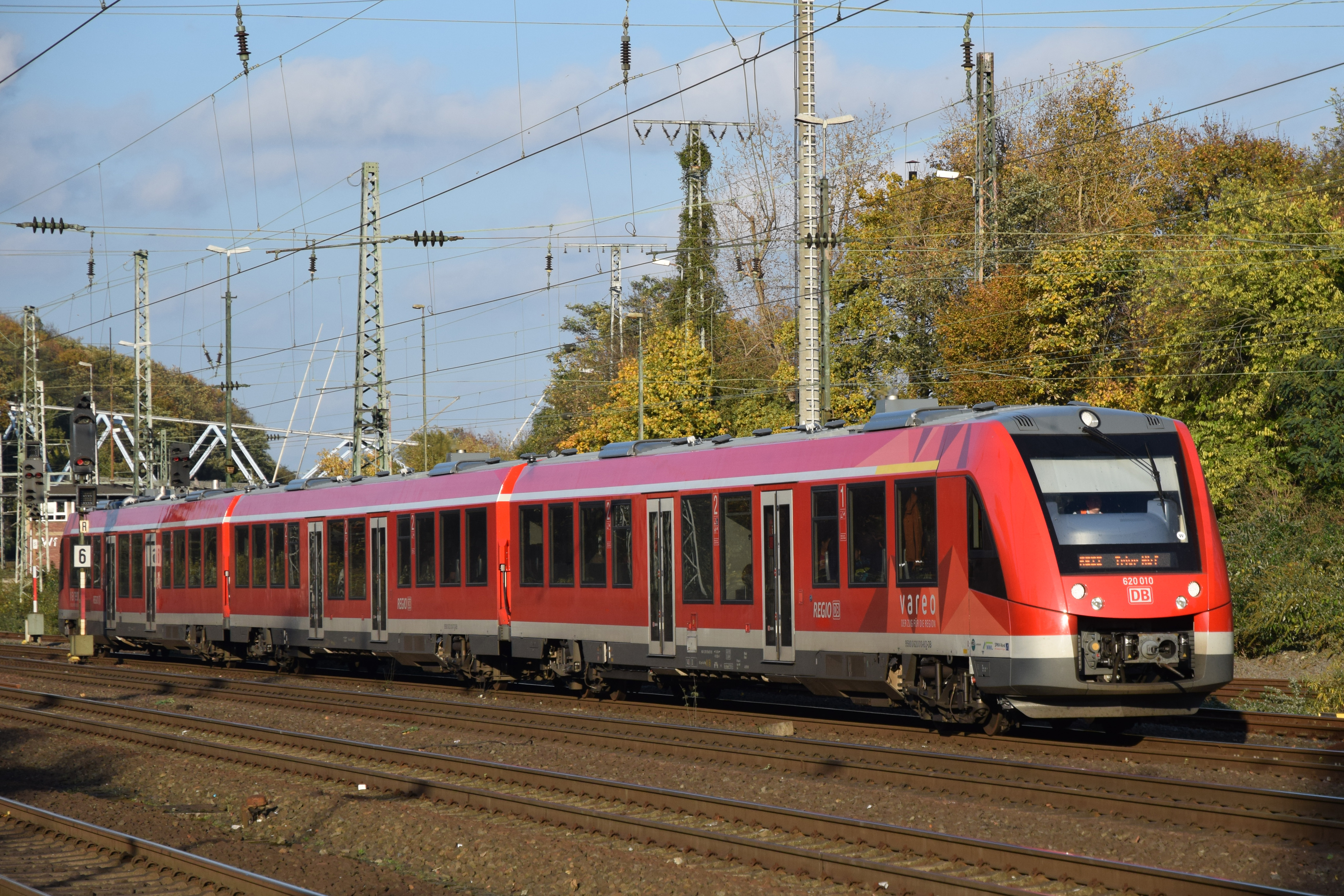 DBAG 620 010 in Cologne-West